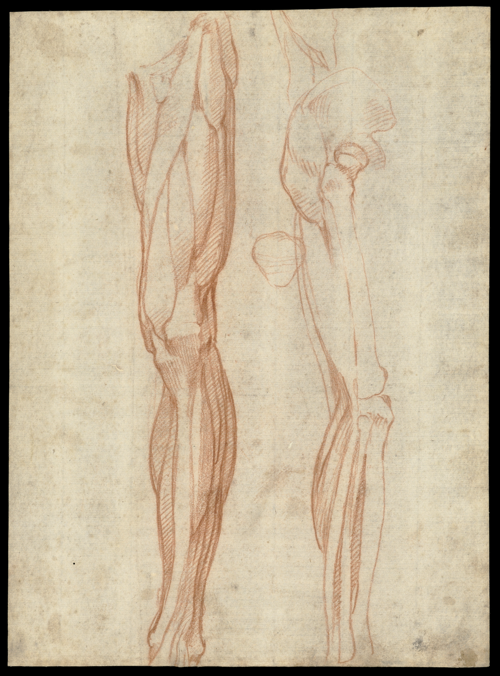 These drawings of the human leg are by the artist Michelangelo Buonarroti (1475-1564), whose studies of anatomy are recorded by his earliest biographers, Vasari (1550) and Condivi (1553). Michelangelo reportedly first dissected a cadaver in Florence around 1495, after he had been commissioned to sculpt a crucifix of wood for the church of Santo Spirito. The prior of the church gave him rooms in which he could, by dissection, learn how to render convincingly the muscles of the dying Christ. His last witnessed dissection occurred in Rome in 1548. Such studies were particularly apt for his typical subject matter, the muscular male nude in contorted action. The drawing on the left is a front or anterior view of the left thigh and leg, in which each of the major muscles is carefully drawn in outline and then hatched diagonally to emphasize their shapes. The swelling and tapering shape of the muscles is clearly delineated by the draftsman, as is the compact way in which the muscles interweave with each other. The drawing on the right is a side view of the same structure after the muscles have been cut away from the front of the limb. This work was presented to the Wellcome Library in 1980, in memory of Dr. Robert Heller and Mrs. Anne Heller. Chalk drawings; Human anatomy; Human skeleton; Leg; Muscles